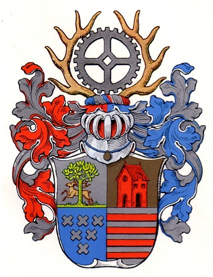 Coat of arms of the Castenschiold family